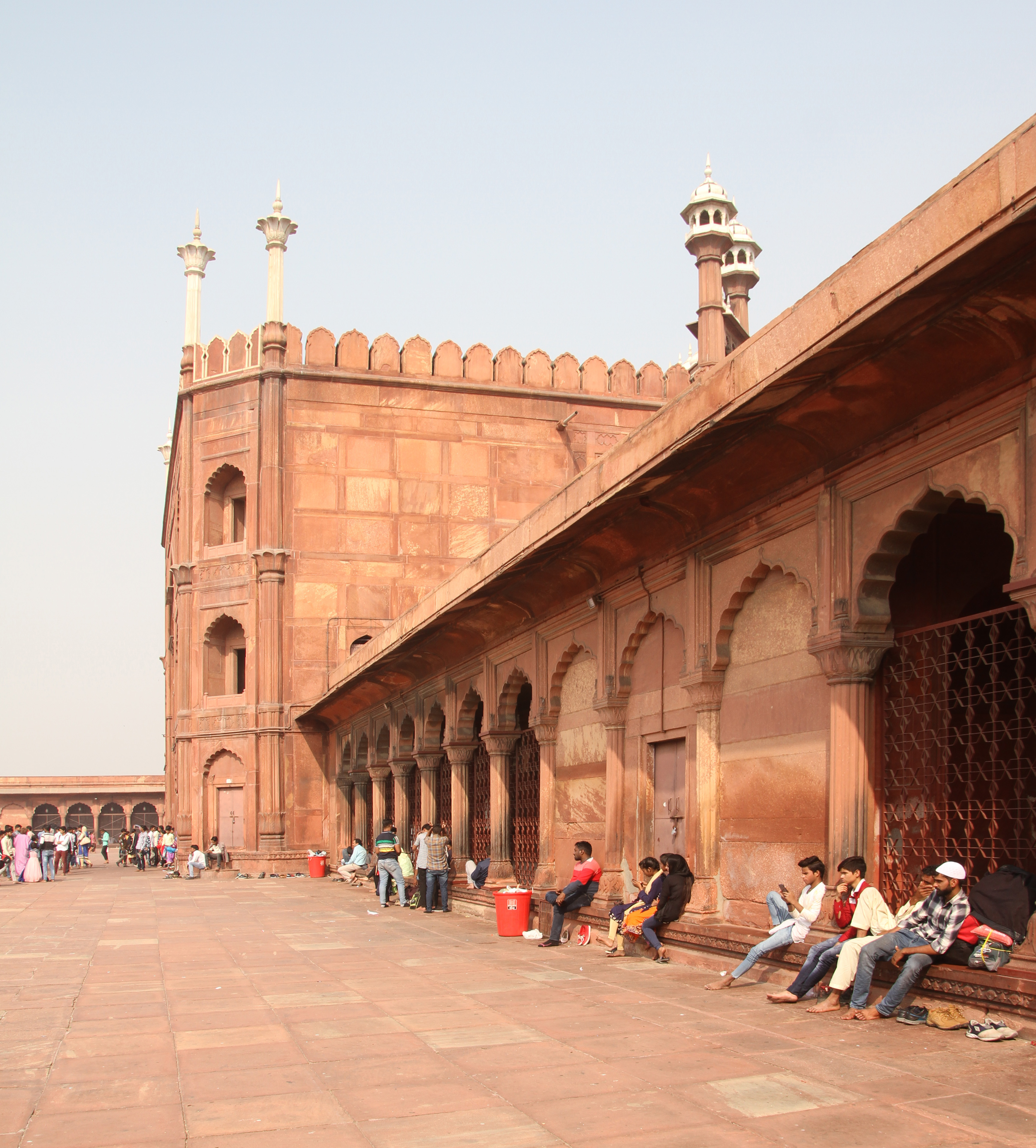 Jama Masjid, Delhi